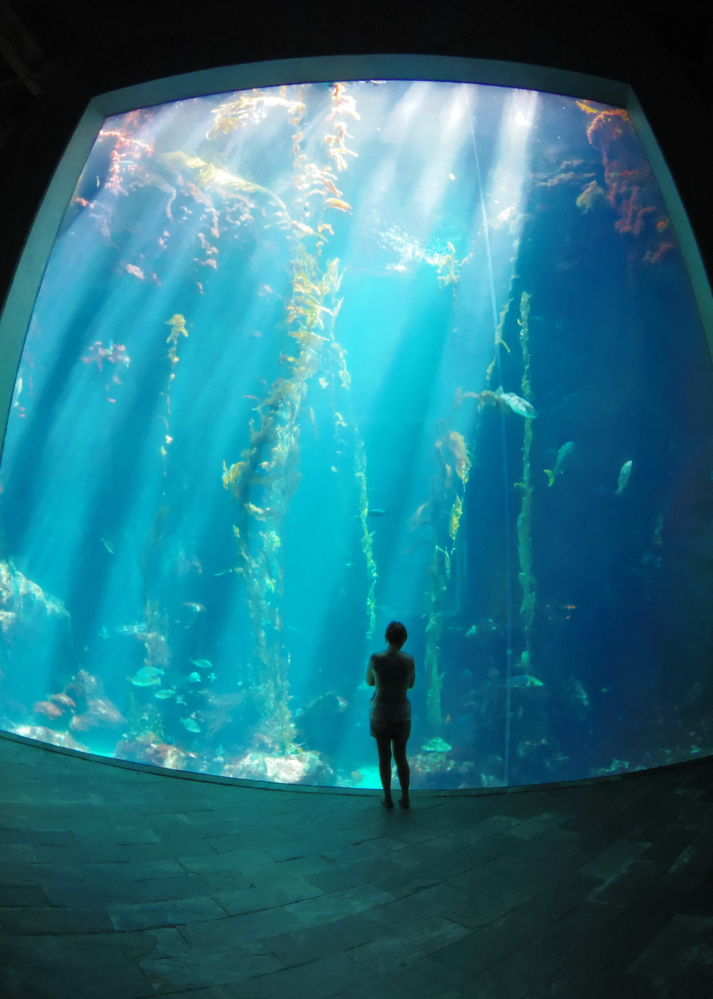 Kelp Forests, National Museum of Marine Biology and Aquarium, Taiwan.